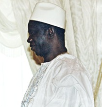 Guinea's President Lansana Conté during a meeting with Vladimir Putin in Moscow.